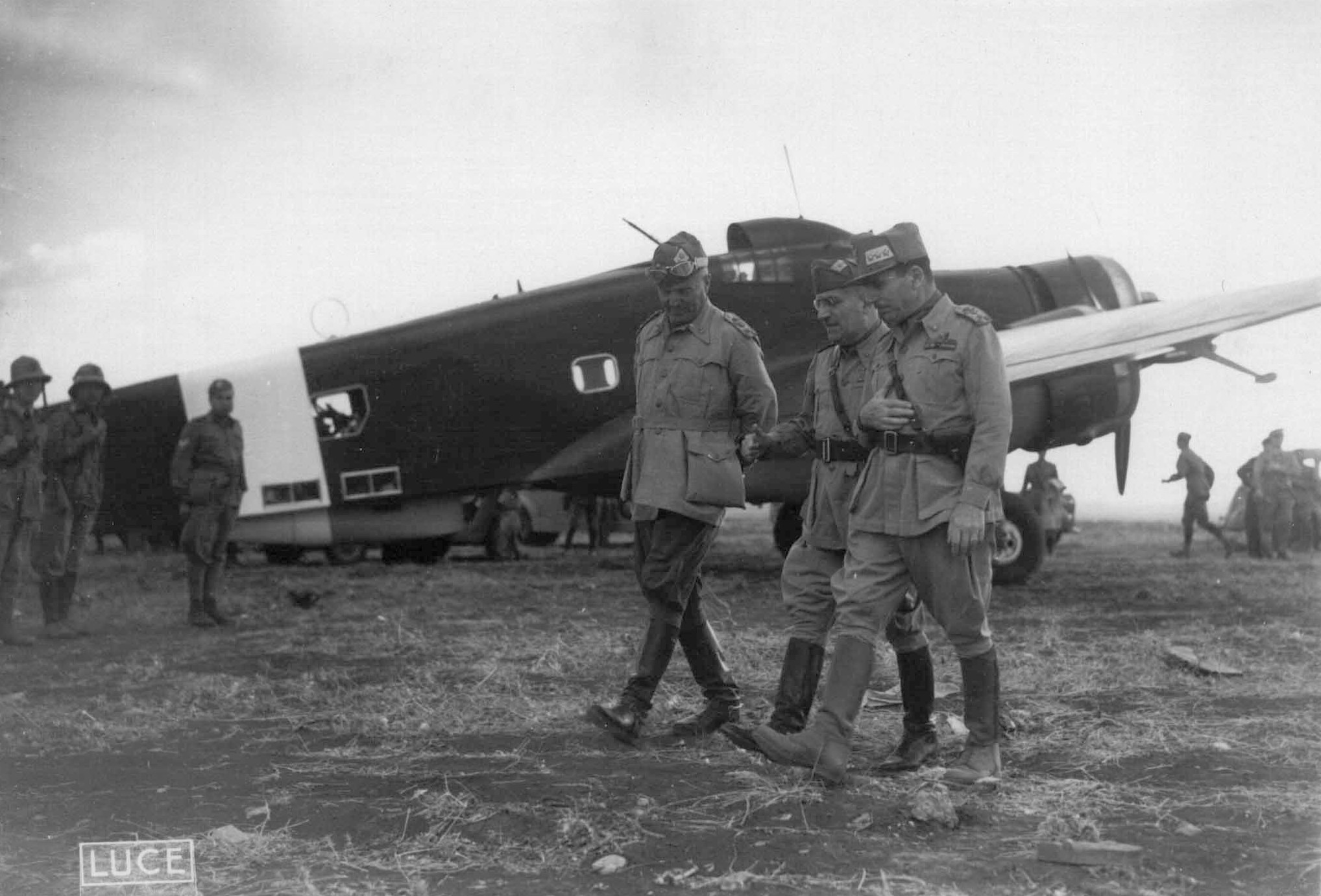 Italian generals Ugo Cavallero and Ettore Bastico in discussion at an air base in Libya in 1942.